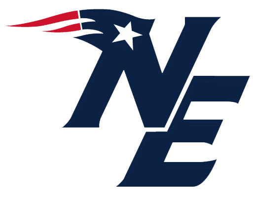 The New England Patriots NE logo.